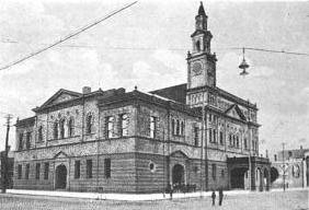 Calumet Mich City Hall and Opera House